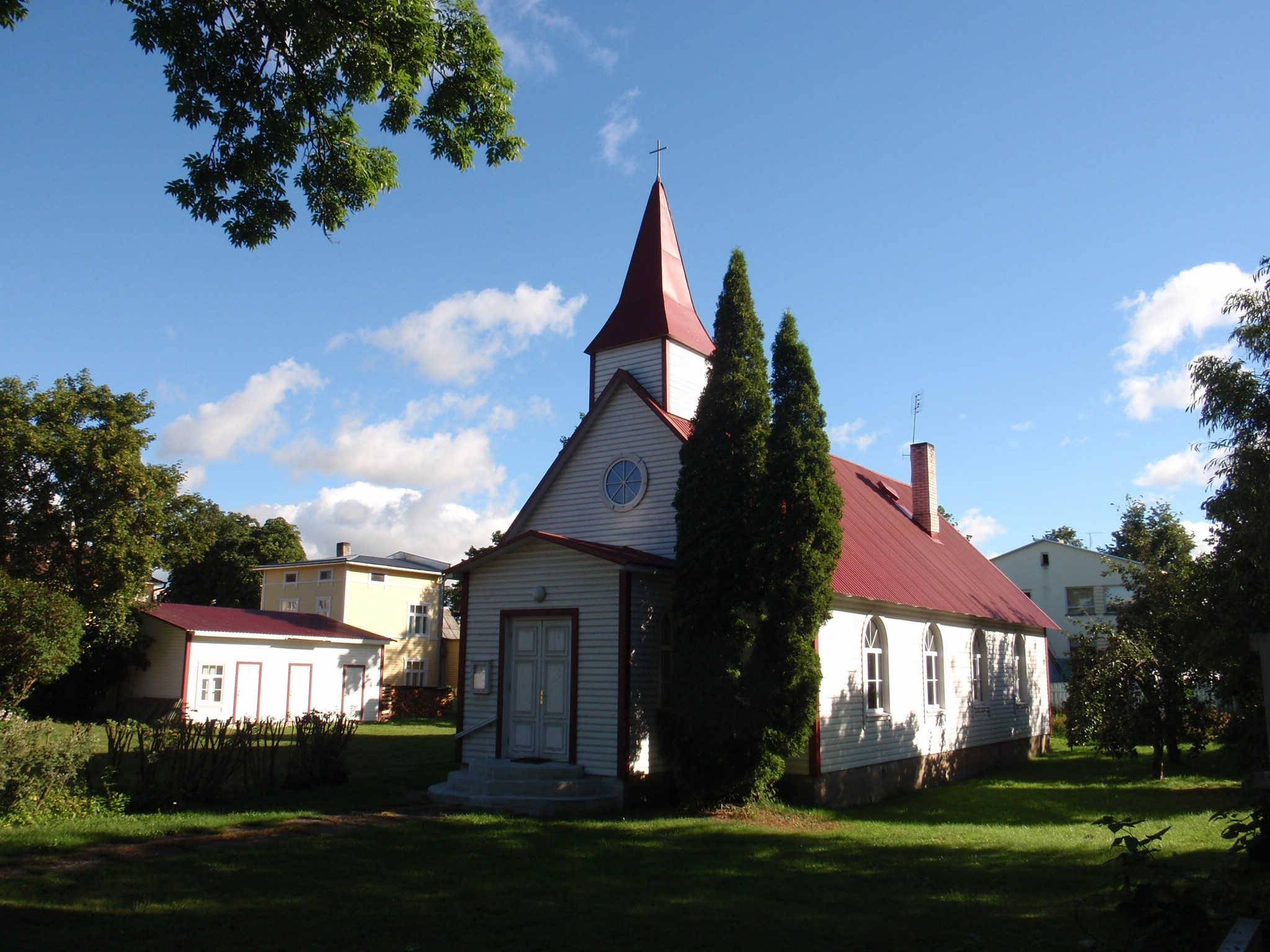 Rakvere metodisti kirik